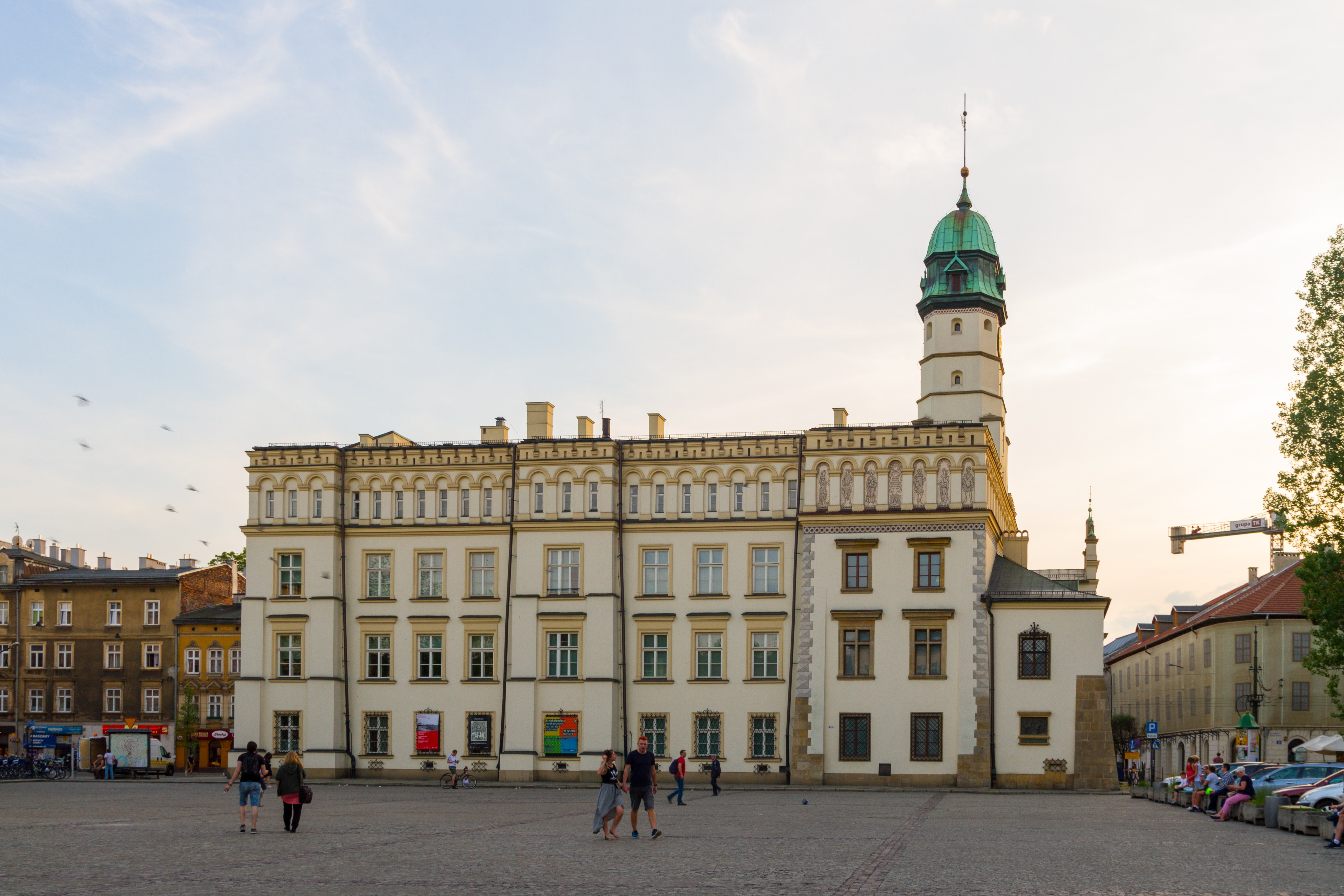 Muzeum Etnograficzne im. Seweryna Udzieli w Krakowie - Ratusz